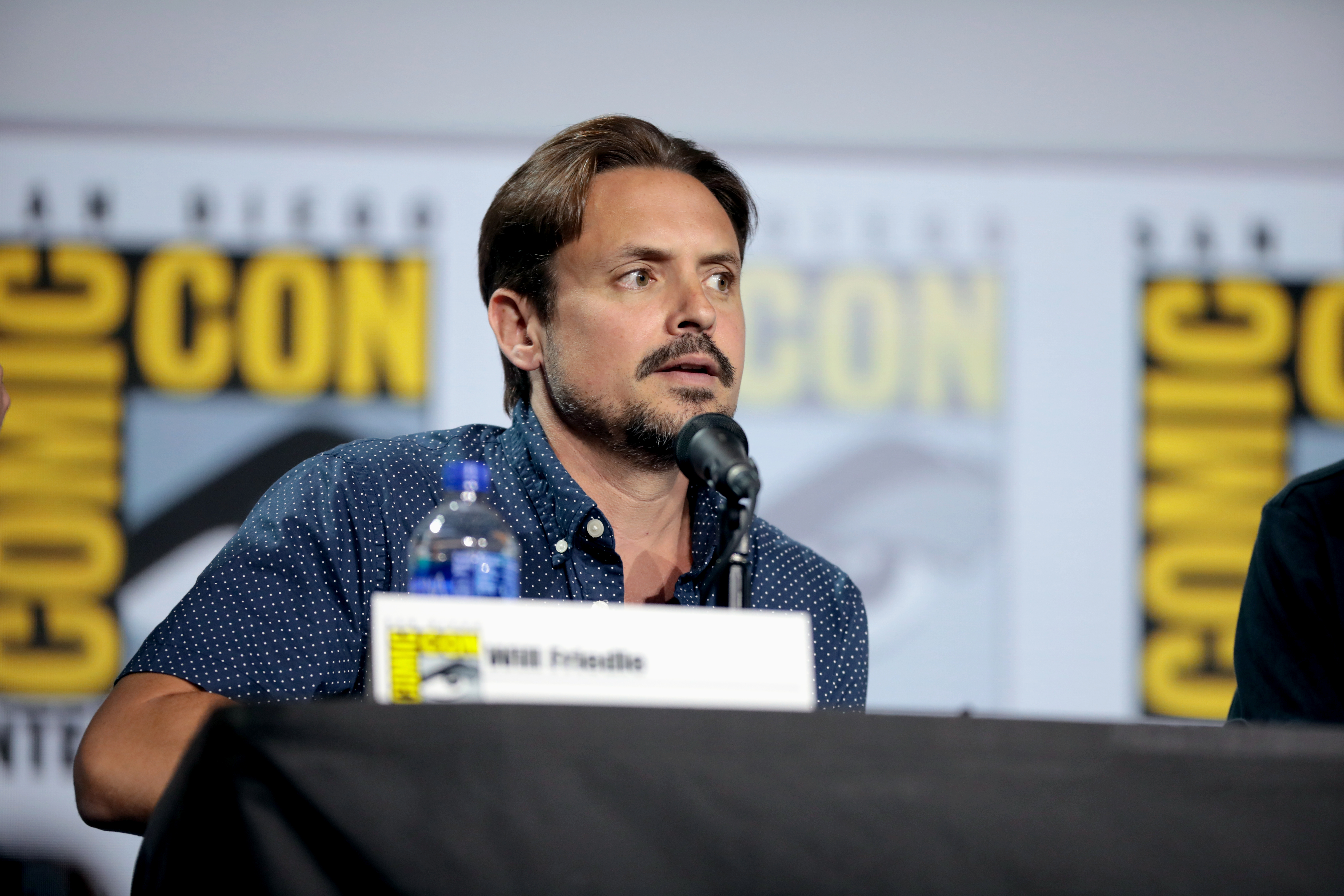 Will Friedle speaking at the 2019 San Diego Comic Con International, for "Batman Beyond 20th Anniversary", at the San Diego Convention Center in San Diego, California.